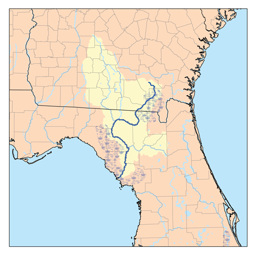 This is a map of the Suwannee River watershed. I, Karl Musser, created it based on USGS data.